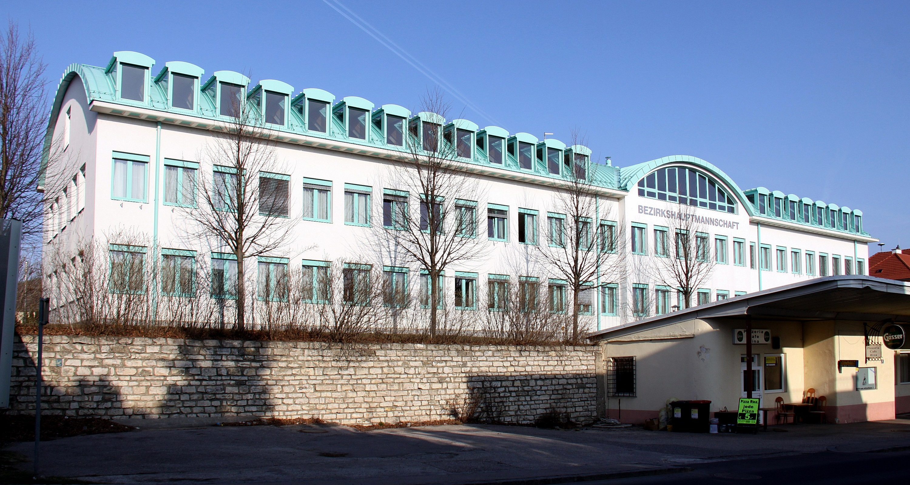 Bezirkshauptmannschaft - Mattersburg. Object location47° 44′ 22.68″ N, 16° 23′ 41.78″ E